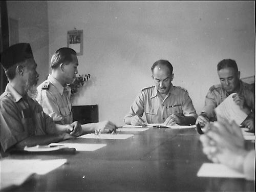 On 7 December, the capital Sibolga (Central Sumatra) was transferred to the Republic. The transfer took place in the officer's mess at 7:00 am. The actual transfer was opened by the Lt. Col. Harvey, the chairman of the Local Joint Committee, who read the report of transfer. From l. to r. : The Indonesian Resident Dr. T.L. Tobing, Lt. Col. Kawilarang, from the TNI in Tapanuli, Lt. Col. Harvey (UNCI), Sgdr. Ldr. Addison (UNCI)